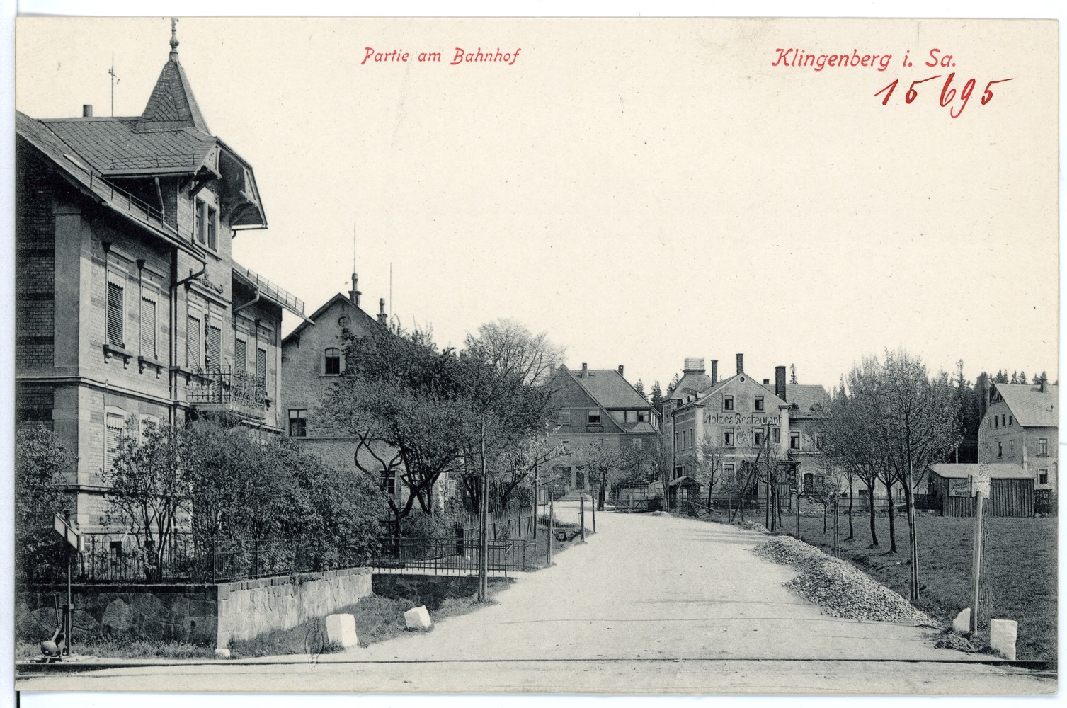 This postcard is from publisher Brück & Sohn in Meißen ( This postcard has a unique number 15695 and is available in a higher resolution at the publisher. This images was uploaded in a cooperation project between Wikipedians and the publisher.